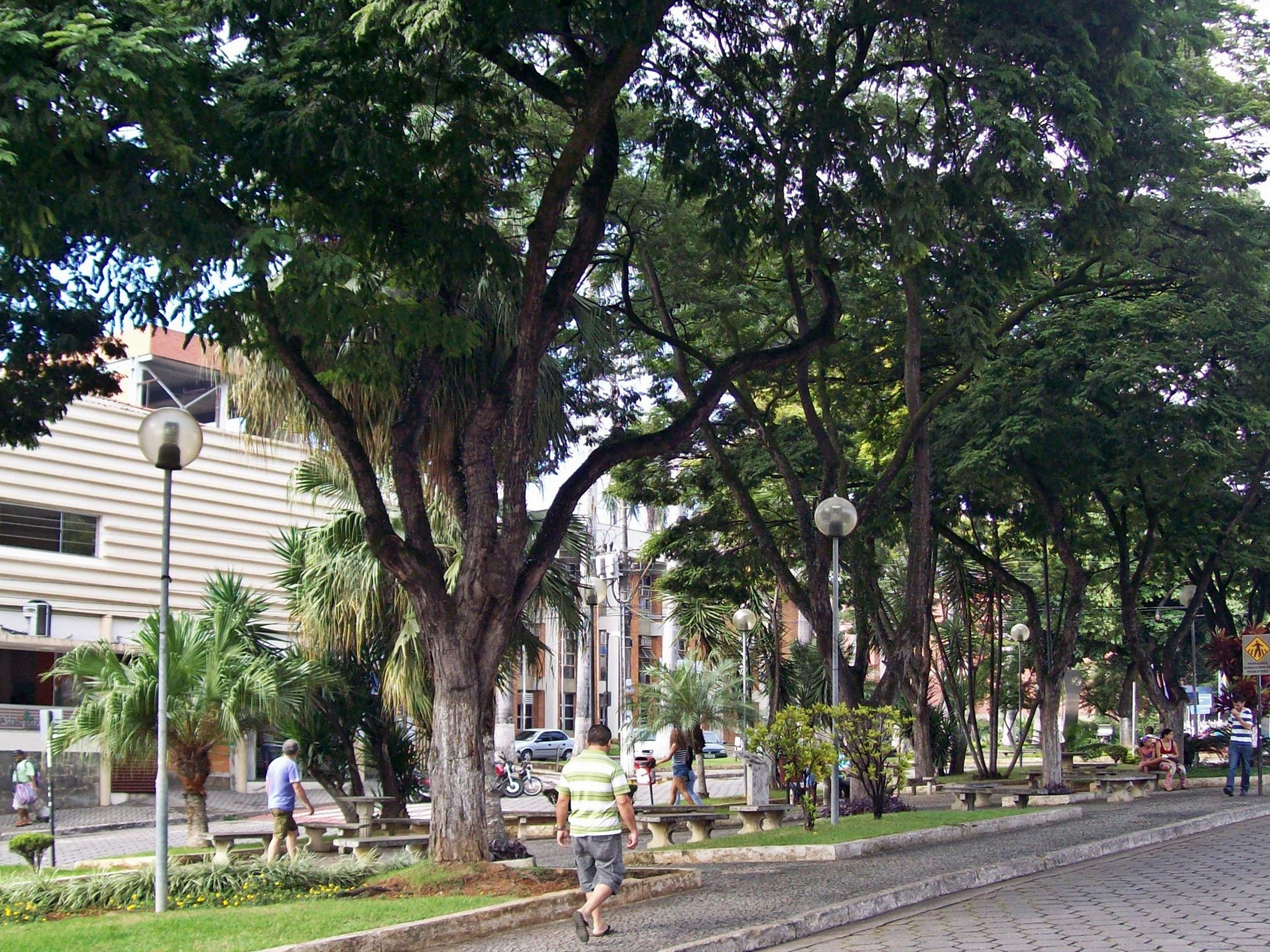 View of the Louis Ensch square, in Coronel Fabriciano, Minas Gerais, Brazil.